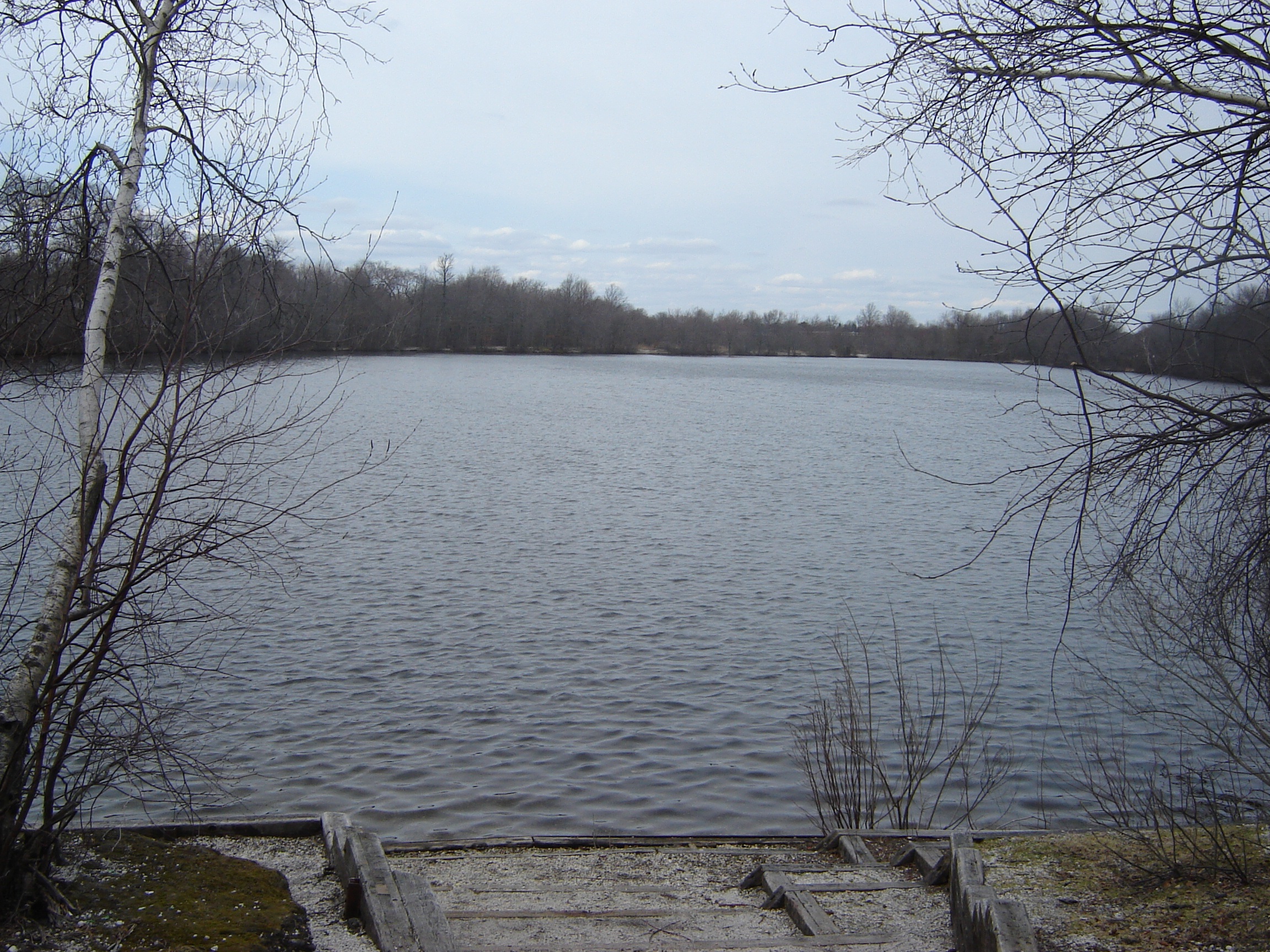 Twin Lakes Preserve on Old Mill Road. This is the North Lake.